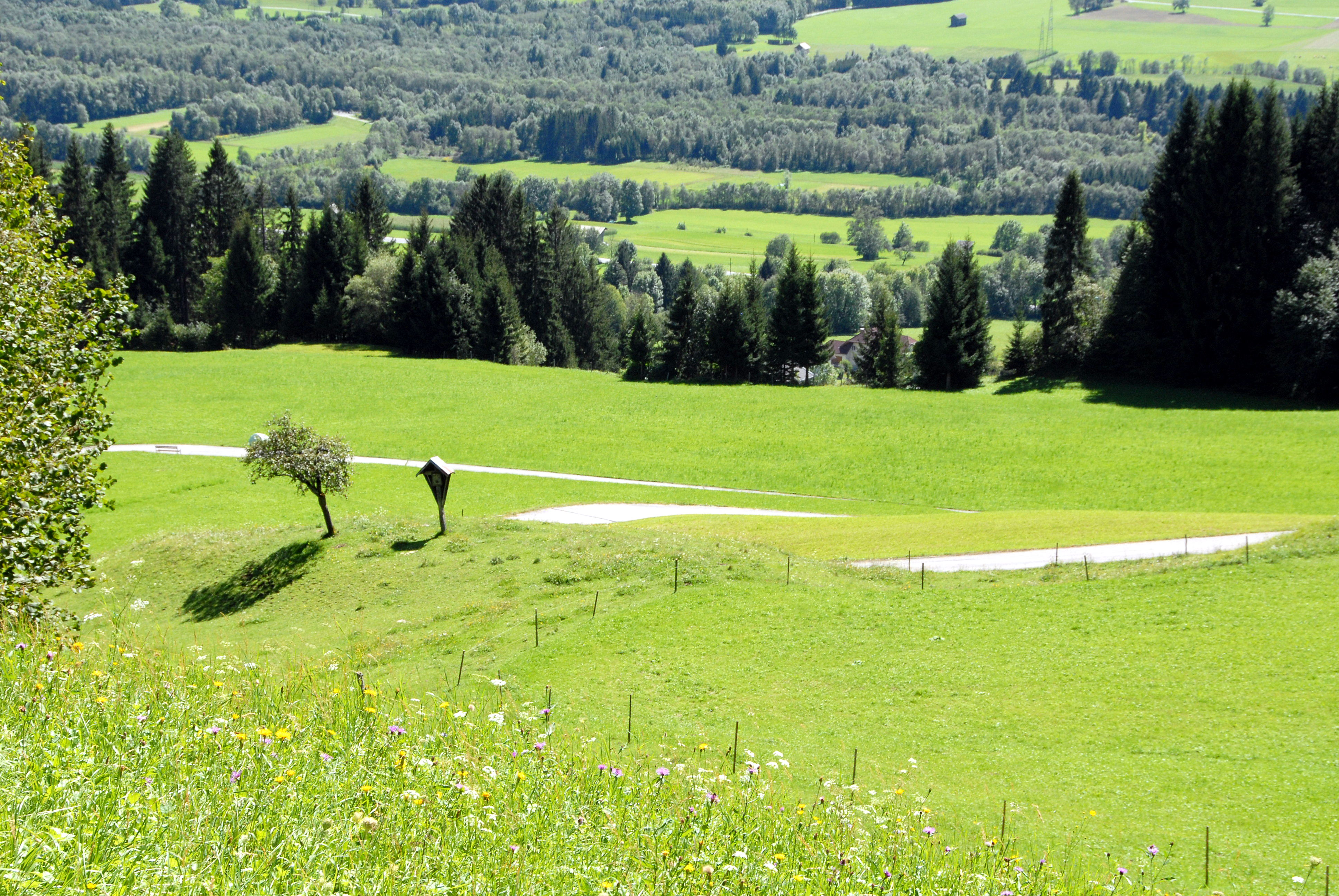 Tumuli in the necropolis of the archaeological site Gurina in the community Dellach (Gailtal), district Hermagor, Carinthia, Austria